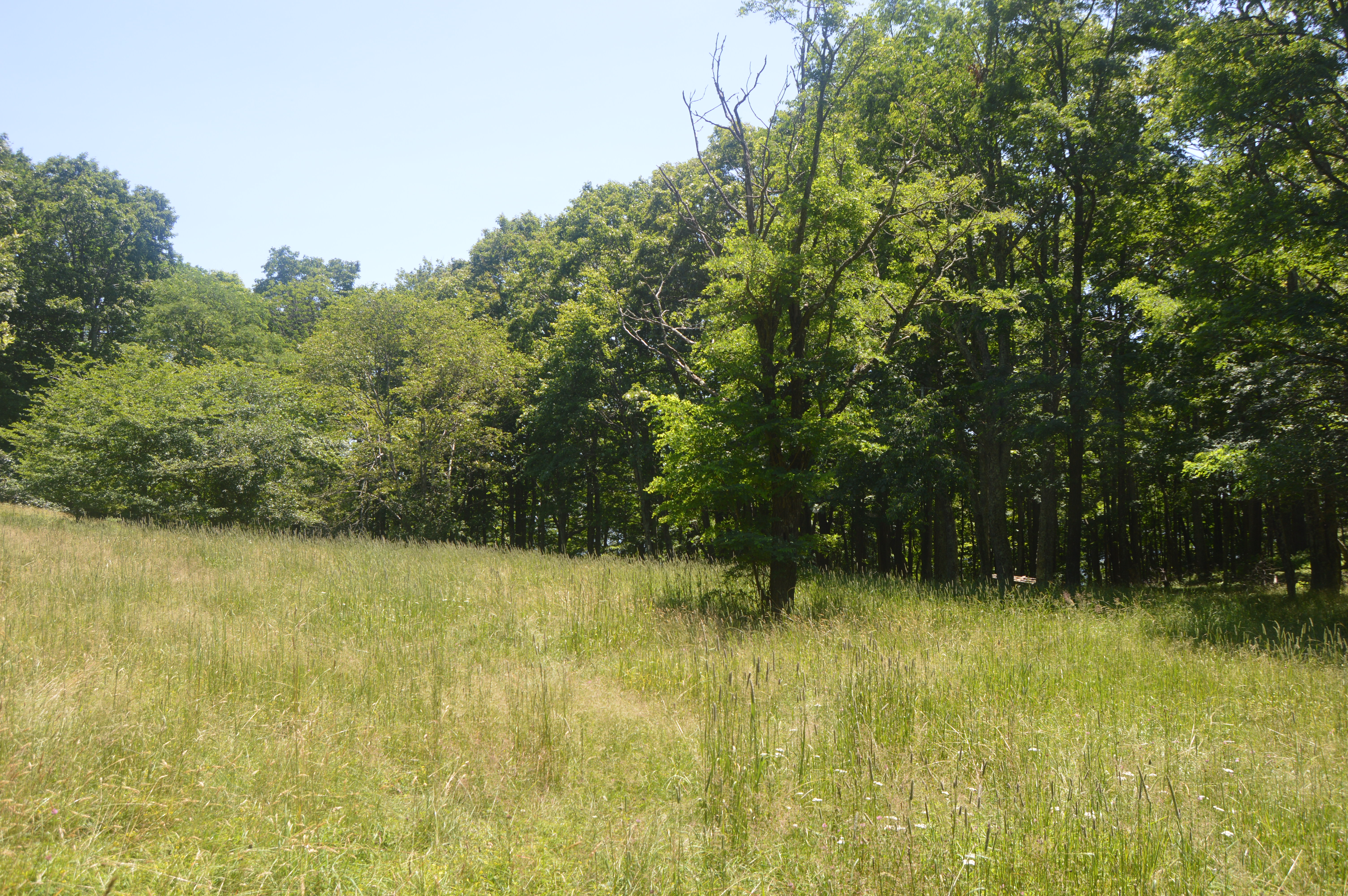 A tree in the western section of a meadow in the Appalachian Mountains in the United States; this spot is the top of a small pass on the border between Highland County, Virginia and Pocahontas County, West Virginia. The clearing is included within the GW Jeep Site, a locally important archaeological site that is listed on the National Register of Historic Places.